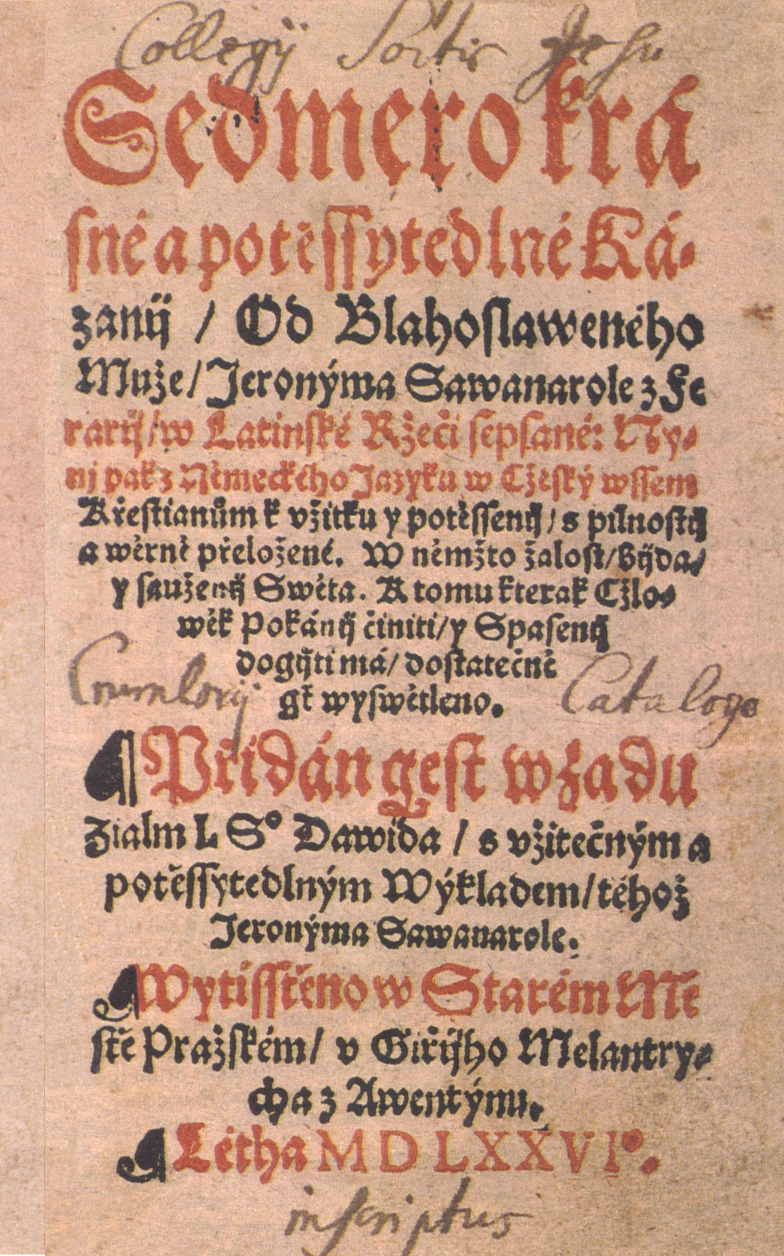 Title page of the Czech edition of Savonarola's sermons from the year 1576